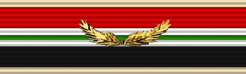 Ribbon version of the proposed Iraq Commitment Medal, awarded to service members by Iraq for service within their borders 2003-2011.